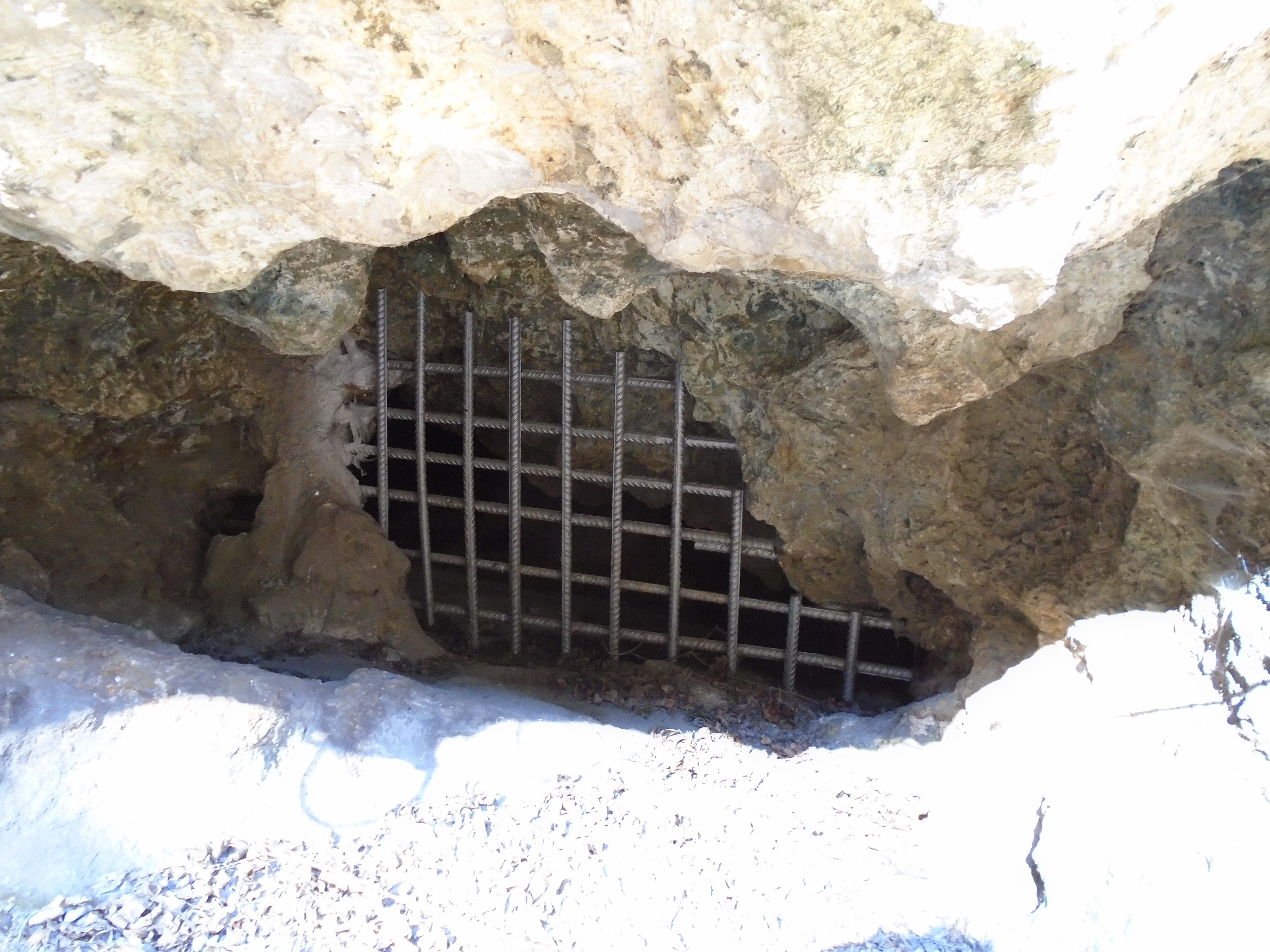 Entrance of Csókavári Cave in Üröm.